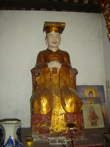 Statue of Emperor Mạc Thái Tông (莫太宗, 1491 - 1540) at Đại Trà Pagoda, Đông Phương Village, Kiến Thụy District, Hải Phòng City. It was made in the XVI-century.